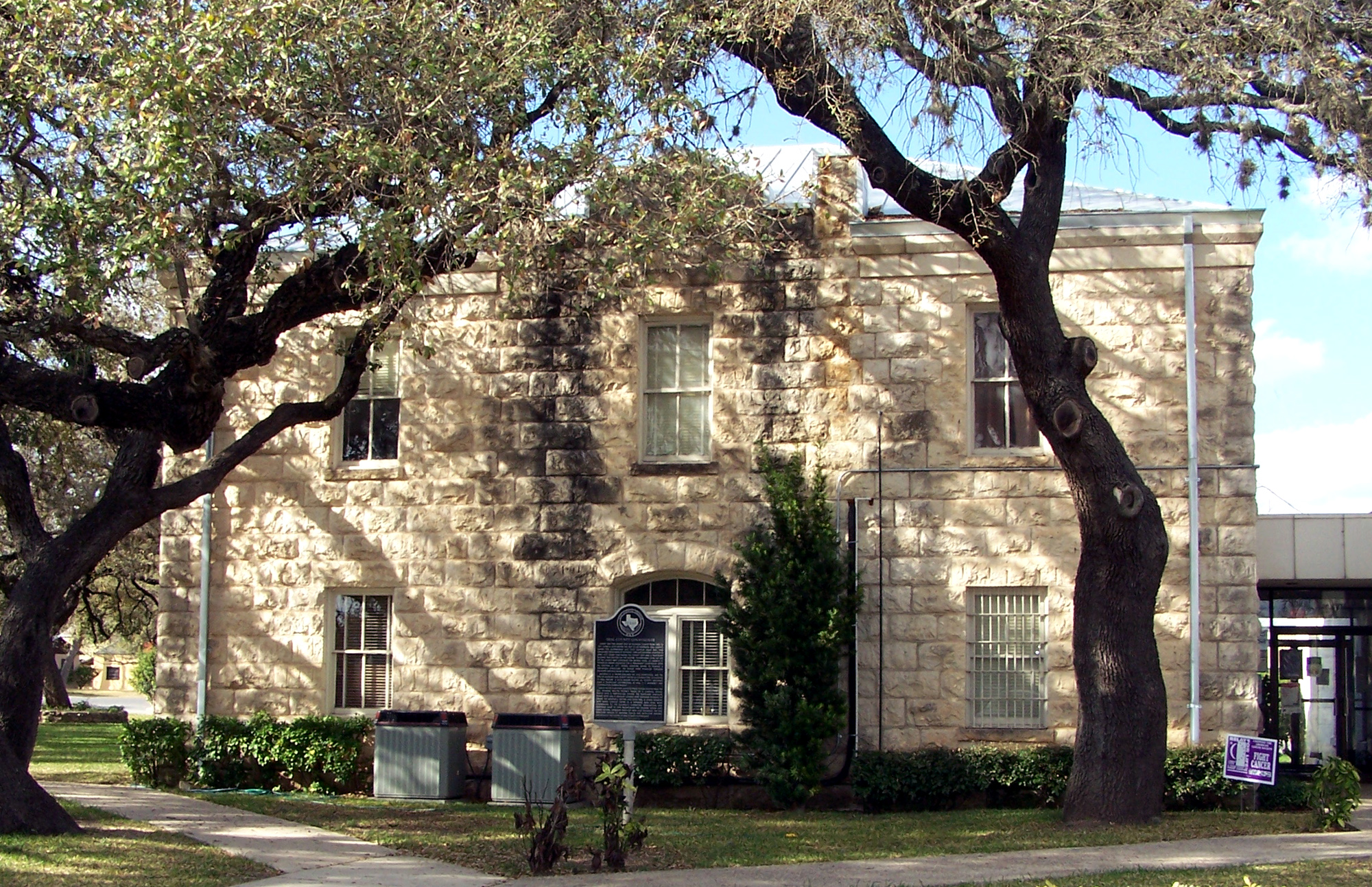 The Real County Courthouse located in Leakey, Texas, United States. Built from native limestone in 1918, the Real County Courthouse presents a classical revival edifice with a fortress-like facade. The courthouse was designated a Recorded Texas Historic Landmark in 2000.